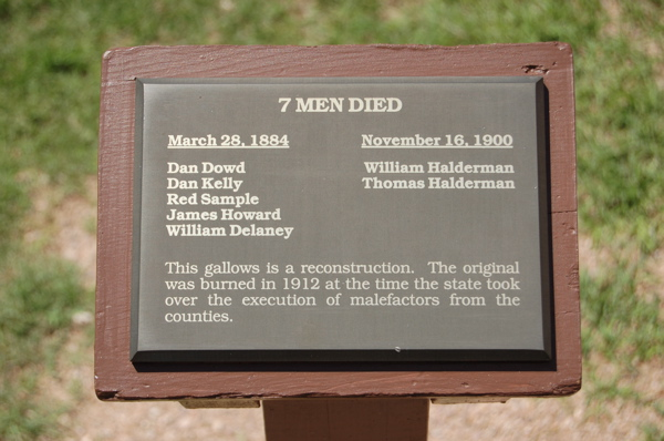 List of men executed, Tombstone Courthouse State Historic Park